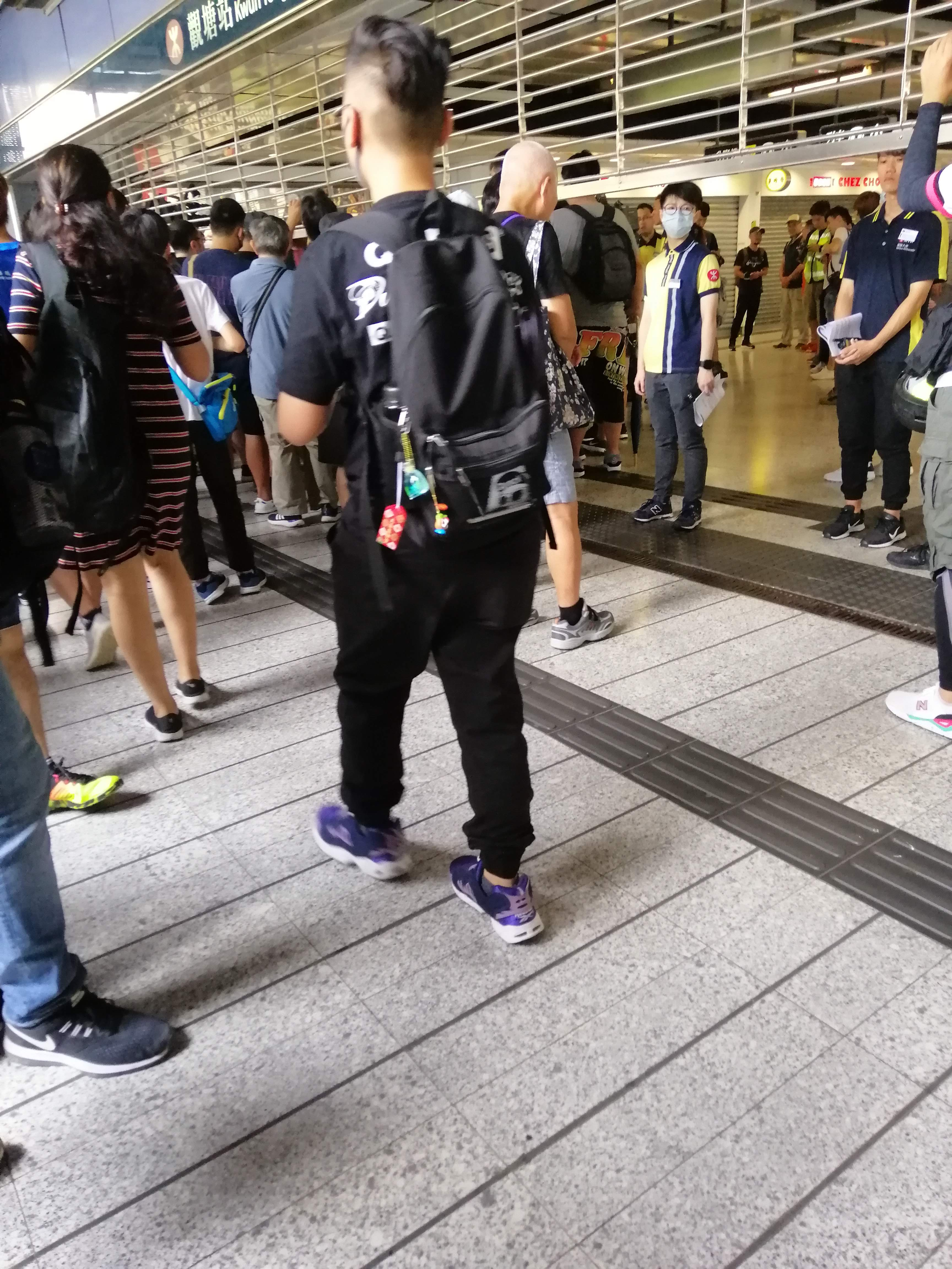 Kwun Tong station closed